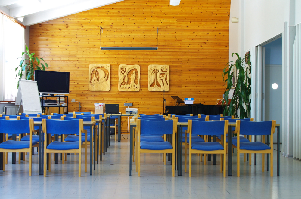 kansanopisto_2